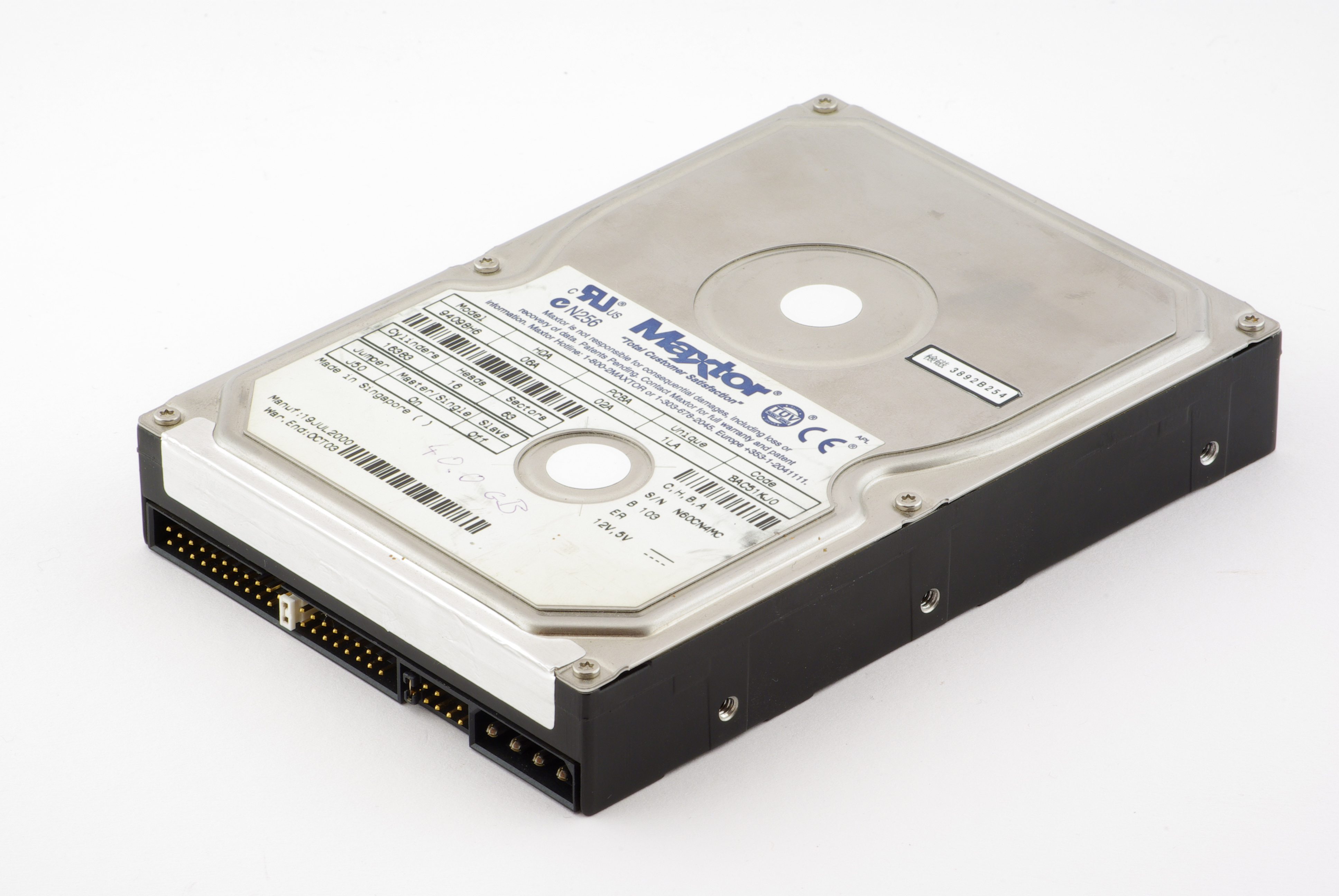 Maxtor 94098H6 hard disk drive (40 GB storage capacity, date of manufacture: July 2000).